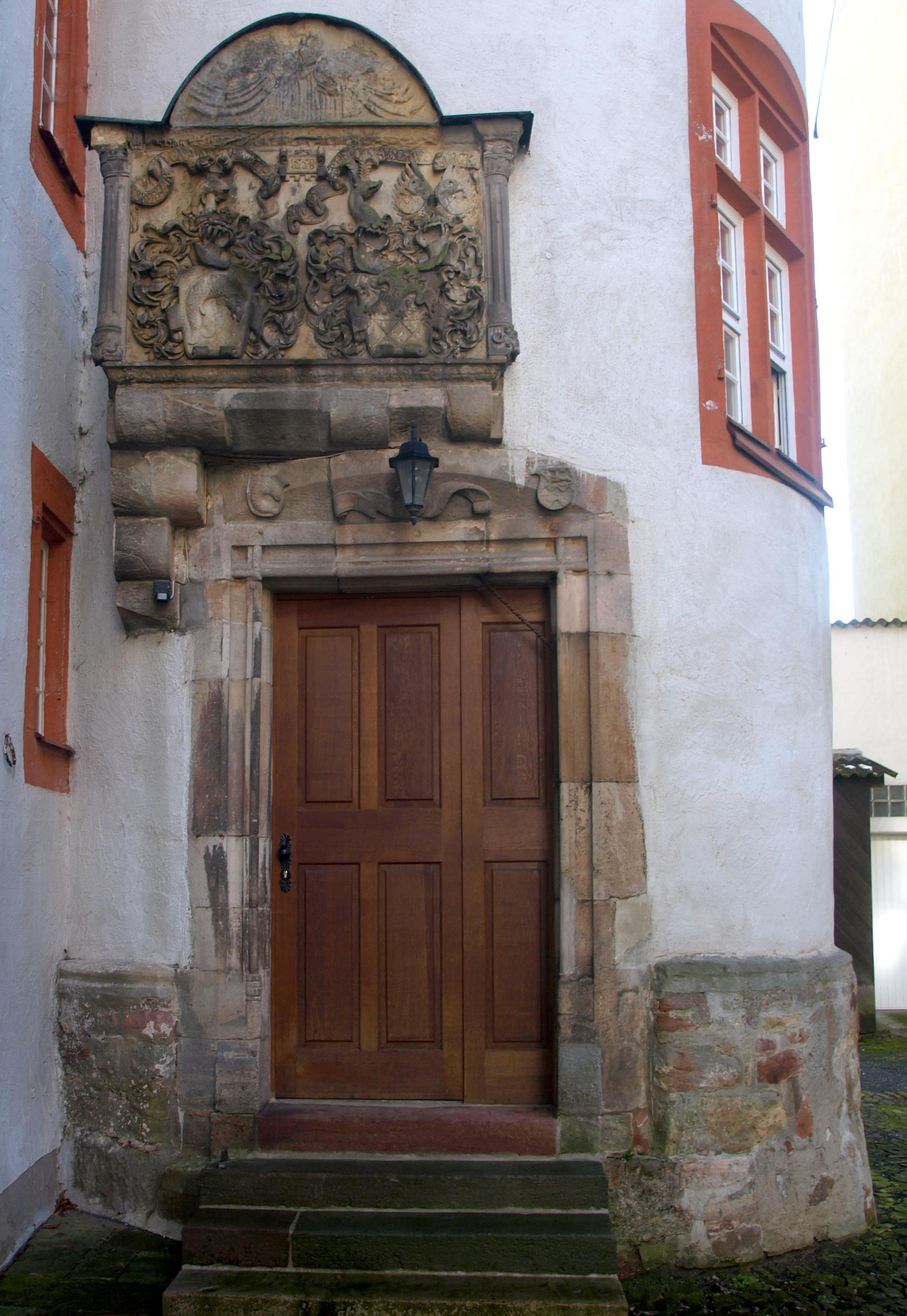 Porch in stair tower of the red castle